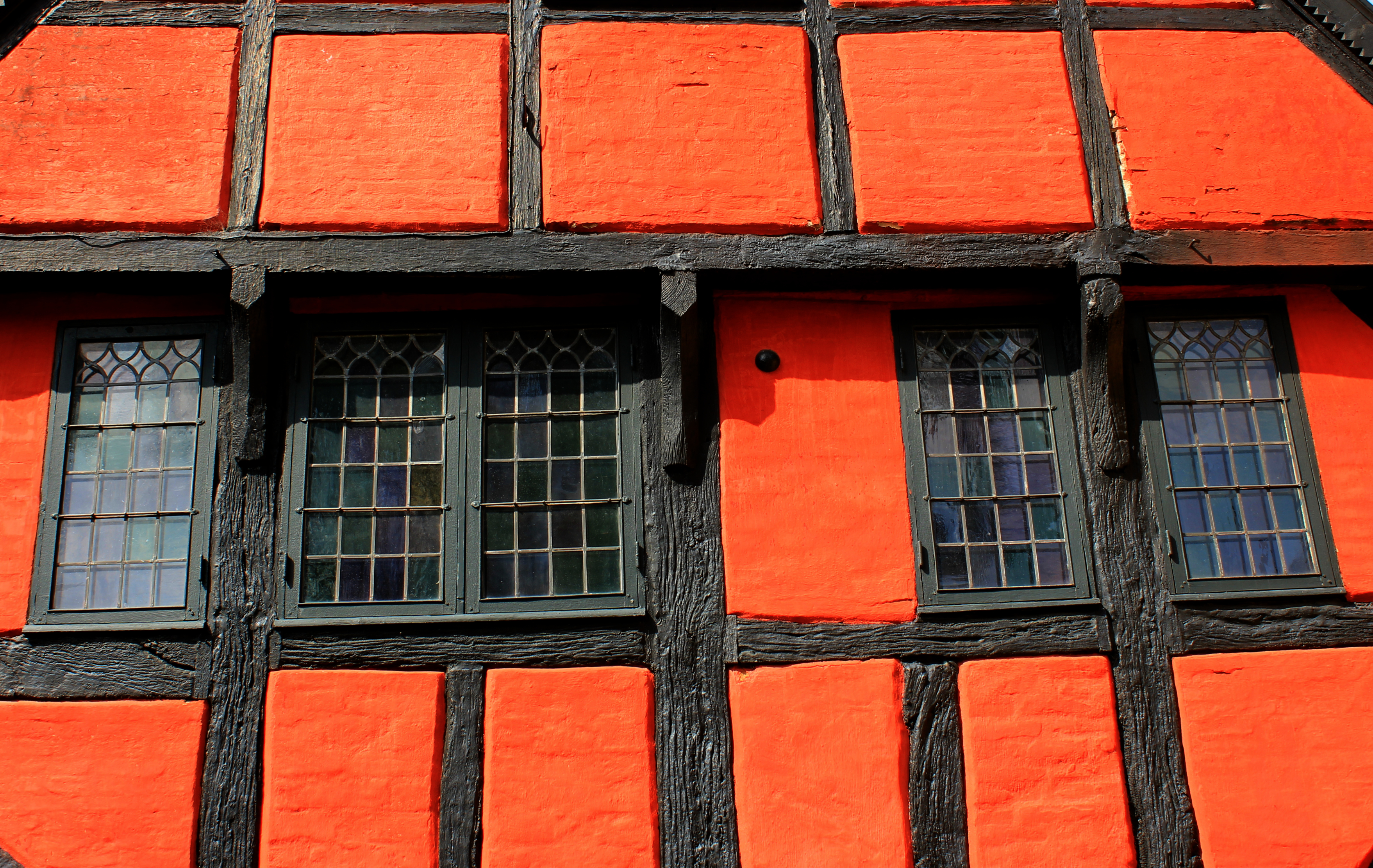 The old citizen's house, Helligkorsgade 18, 6000 Kolding, Denmark, Kolding's oldest building. It's probably built in 1589. The gable has a cannonball, built into the wall, as a memorial, because the house was not destroyed during a bombing in the First Schleswig War. The bombardment took place on 23 April 1849 during the Battle of Kolding. Since 1908 it has been a listed building.